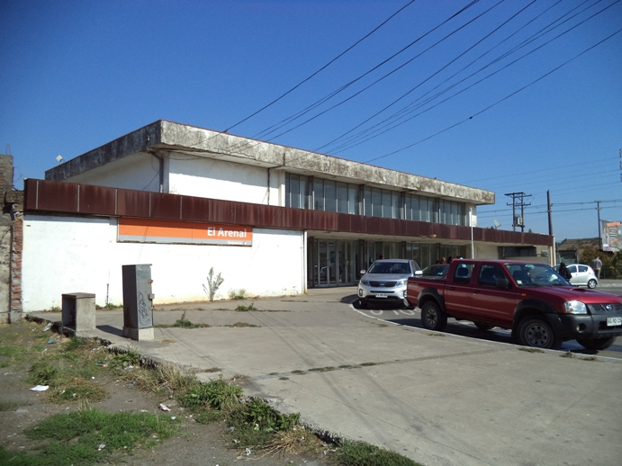 El Arenal train station in Talcahuano, Chile, seen from outside main entrance.